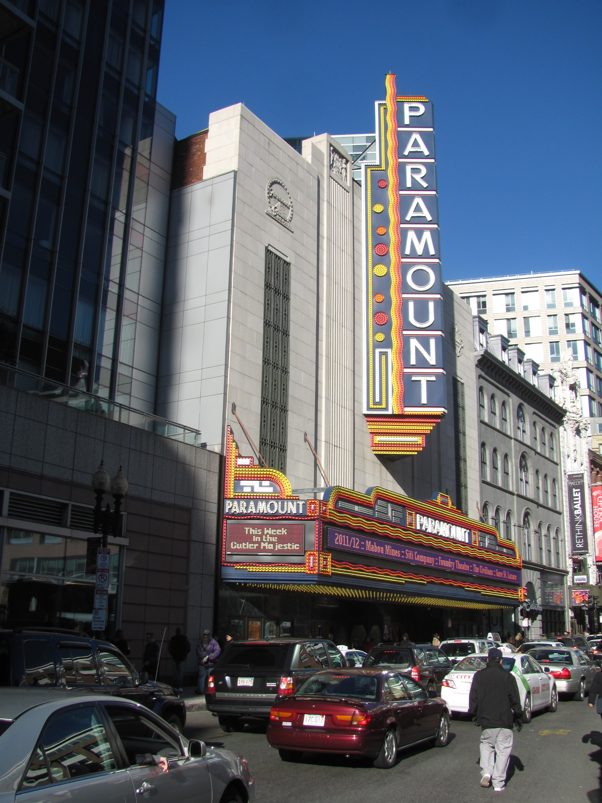 Paramount Theatre, Boston Massachusetts